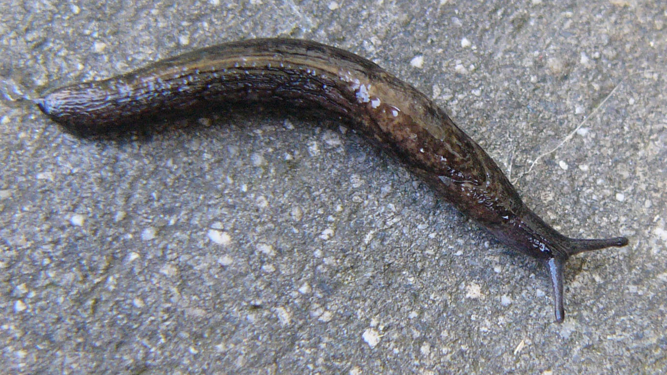 Tandonia budapestensis Locality: CZ, Moravia, Olomouc, Bělidla, Táboritů street, 21 May 2005